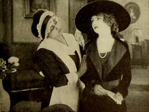 Still from the American film Open Your Eyes (1919) with an unidentified actress and Faire Binney, on page 889 of the May 10, 1919 Moving Picture World. The film was a melodrama recounting the dangers and horrors of venereal disease.